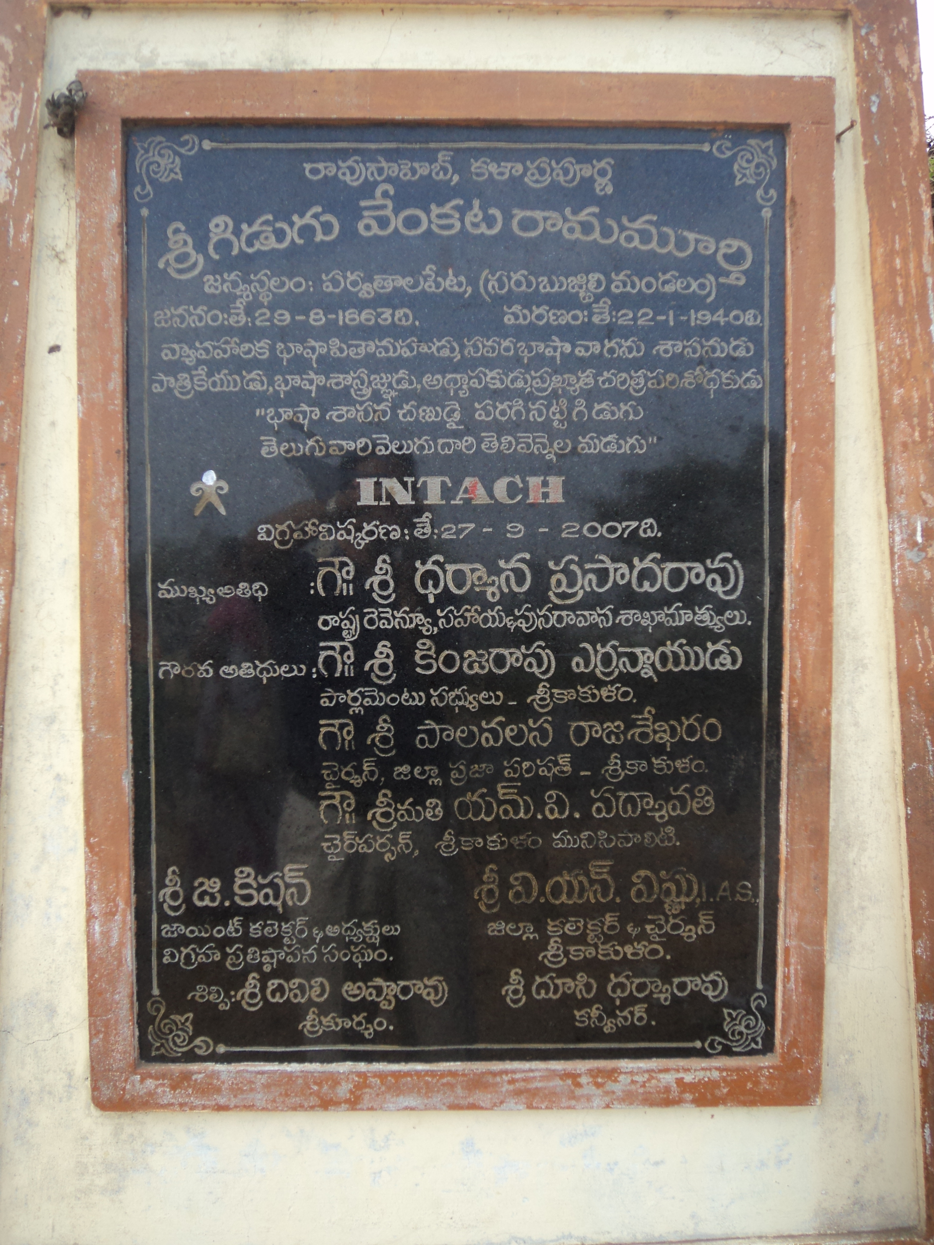 This is photograph of information plate below Gidugu Ramamurthy statue in Srikakulam taken by me.